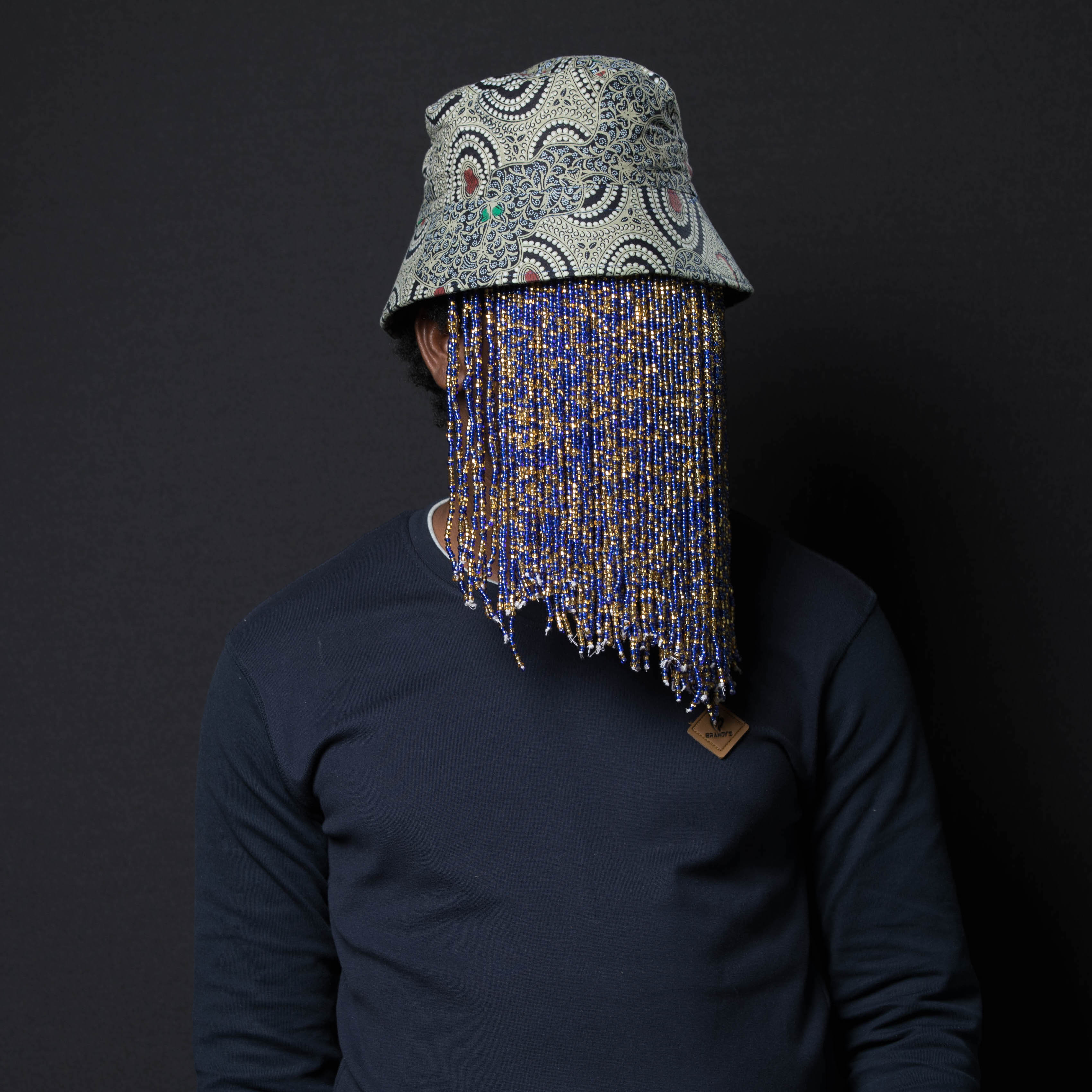 Anas Aremeyaw Anas is an undercover journalist from Ghana who has gained international attention for his investigations into human rights abuses and corruption in Ghana and other African countries.